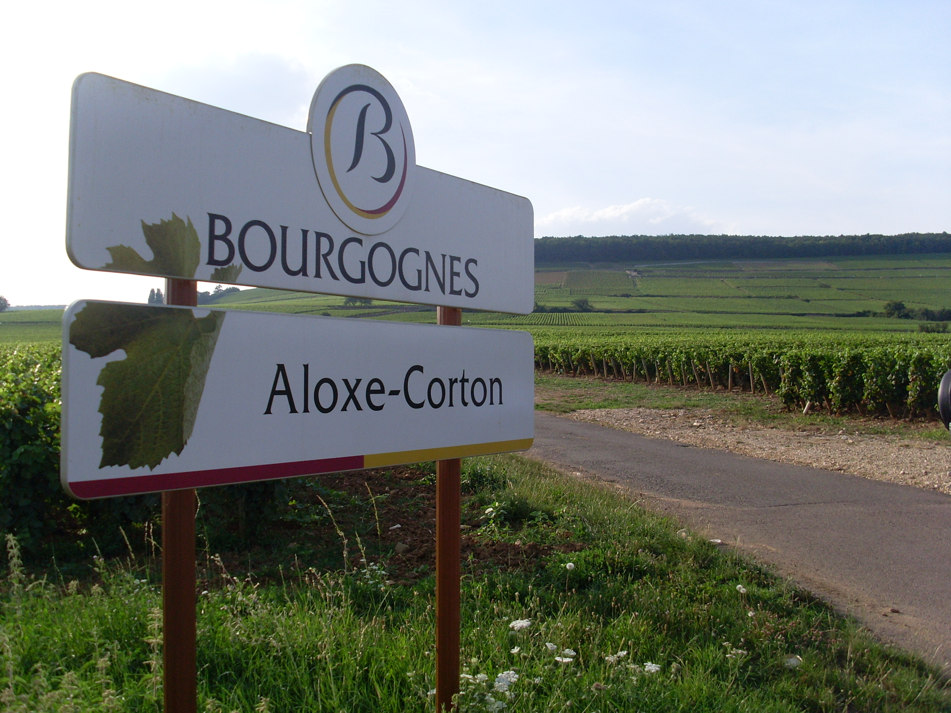 Vineyard sign in the commune of Aloxe-Corton in the Cote de Beaune region of Burgundy